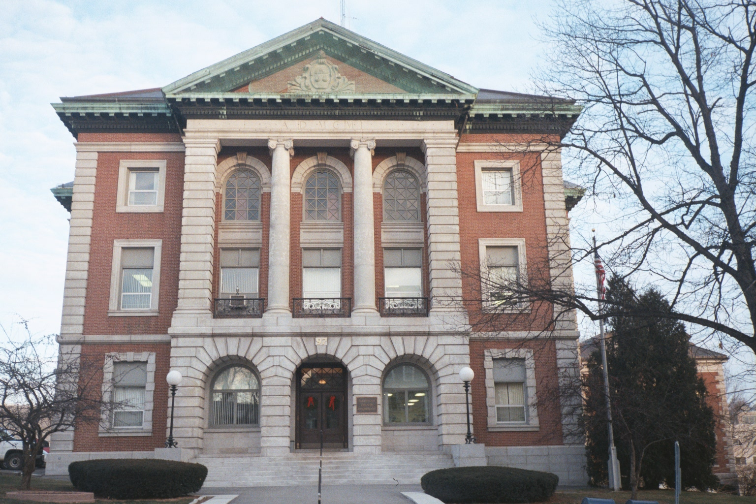 The Penobscot County Courthouse in Bangor, ME -- 1999